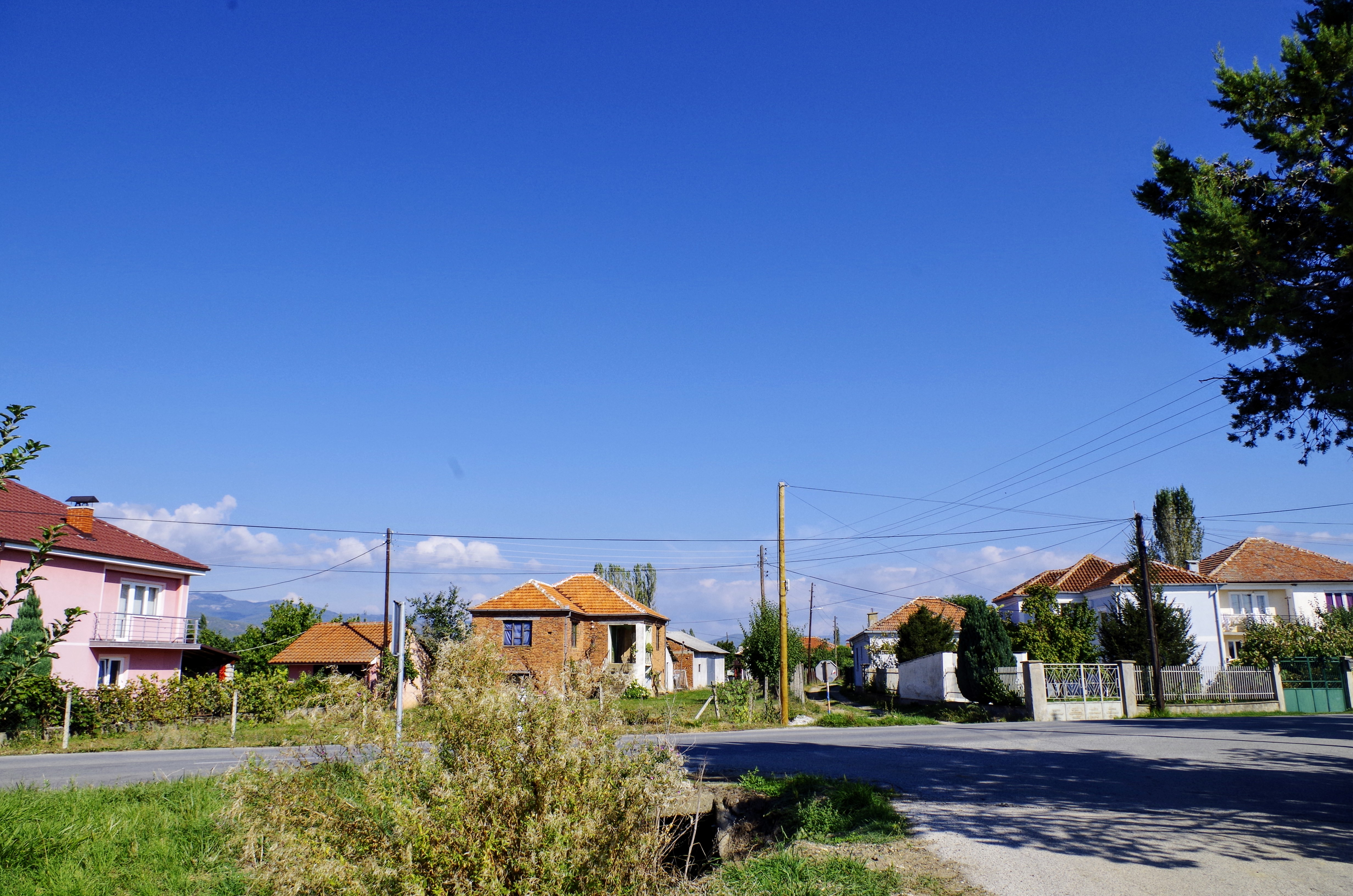 View of the village Gorno Perovo